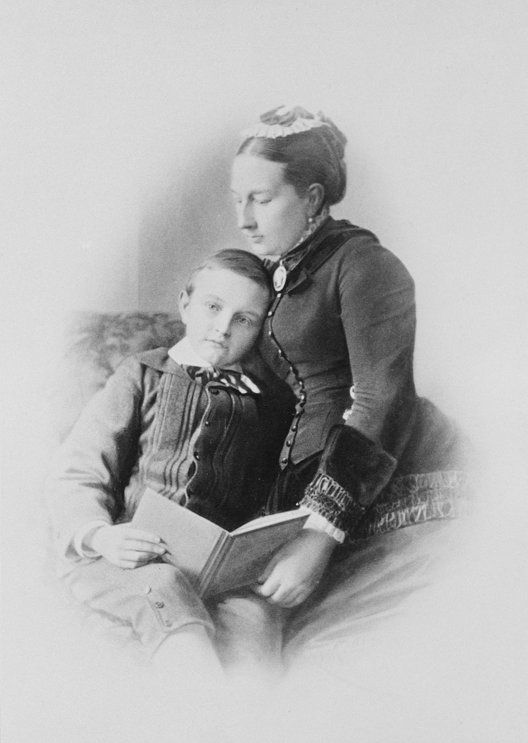 Photograph of Maria Anna, Princess George of Saxony (1843-84) and her youngest son, Prince Albert (1875-1900).